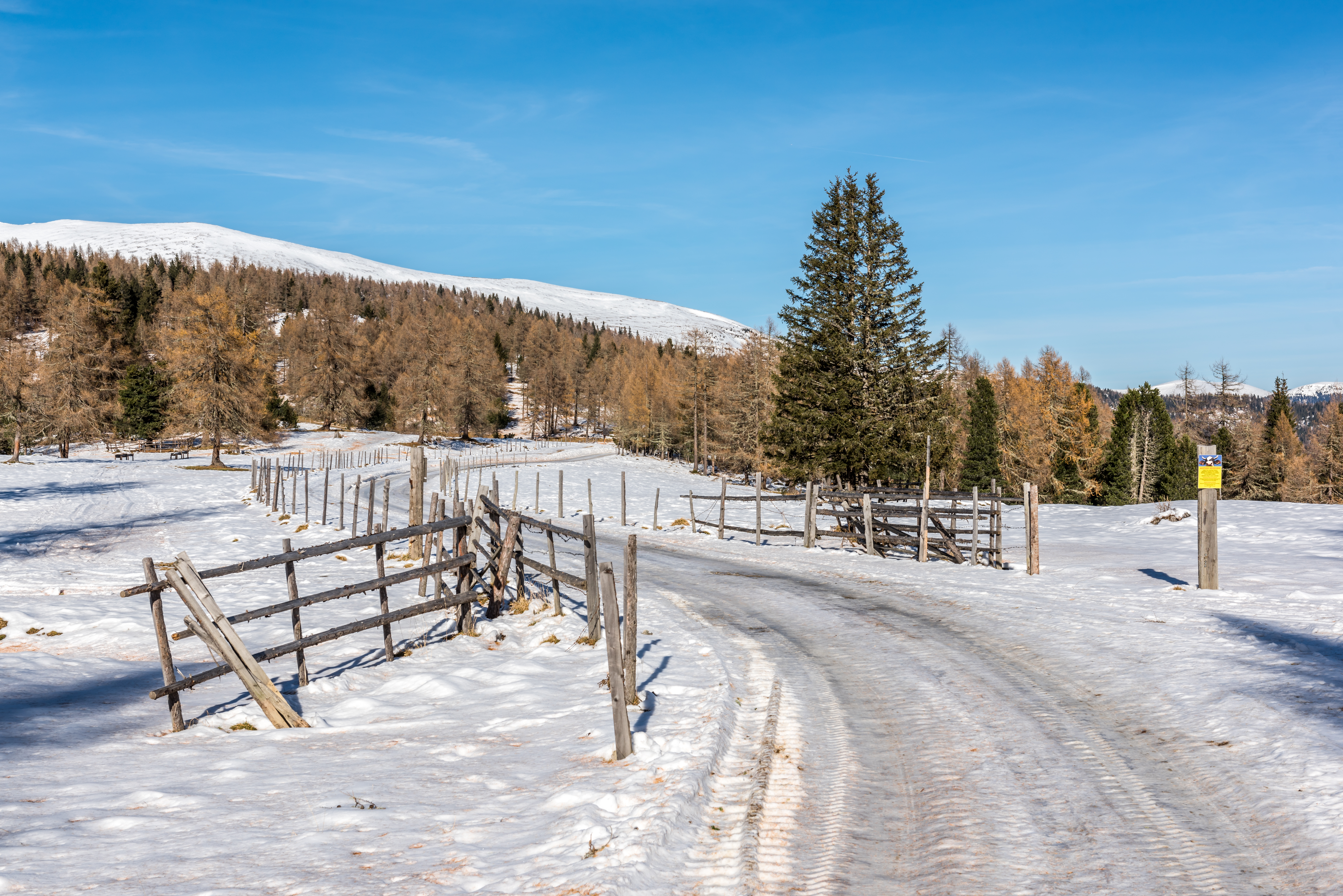 Late autumn on the rural way leading to the "White Cross" in Seebachern, municipality Albeck, district Feldkirchen, Carinthia, Austria, EU